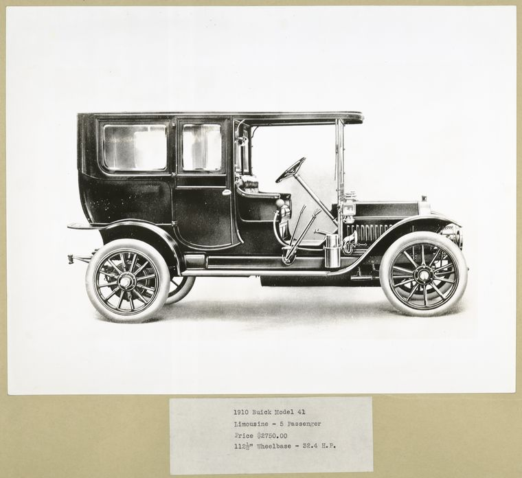 1910 Buick Model 41 - Limousine - 5 passenger Digital ID: 481880 Source: Photographs of General Motors and Chrysler car and truck models, 1902 - 1938. / General Motors Company. Buick 1904-1938 Photographs, Specifications. ( more info ) Repository: The New York Public Library. Science, Industry and Business Library. General Collection Division. See more information about this image and others at NYPL Digital Gallery . Persistent URL: Rights Info: No known copyright restrictions; may be subject to third party rights (for more information, click here )